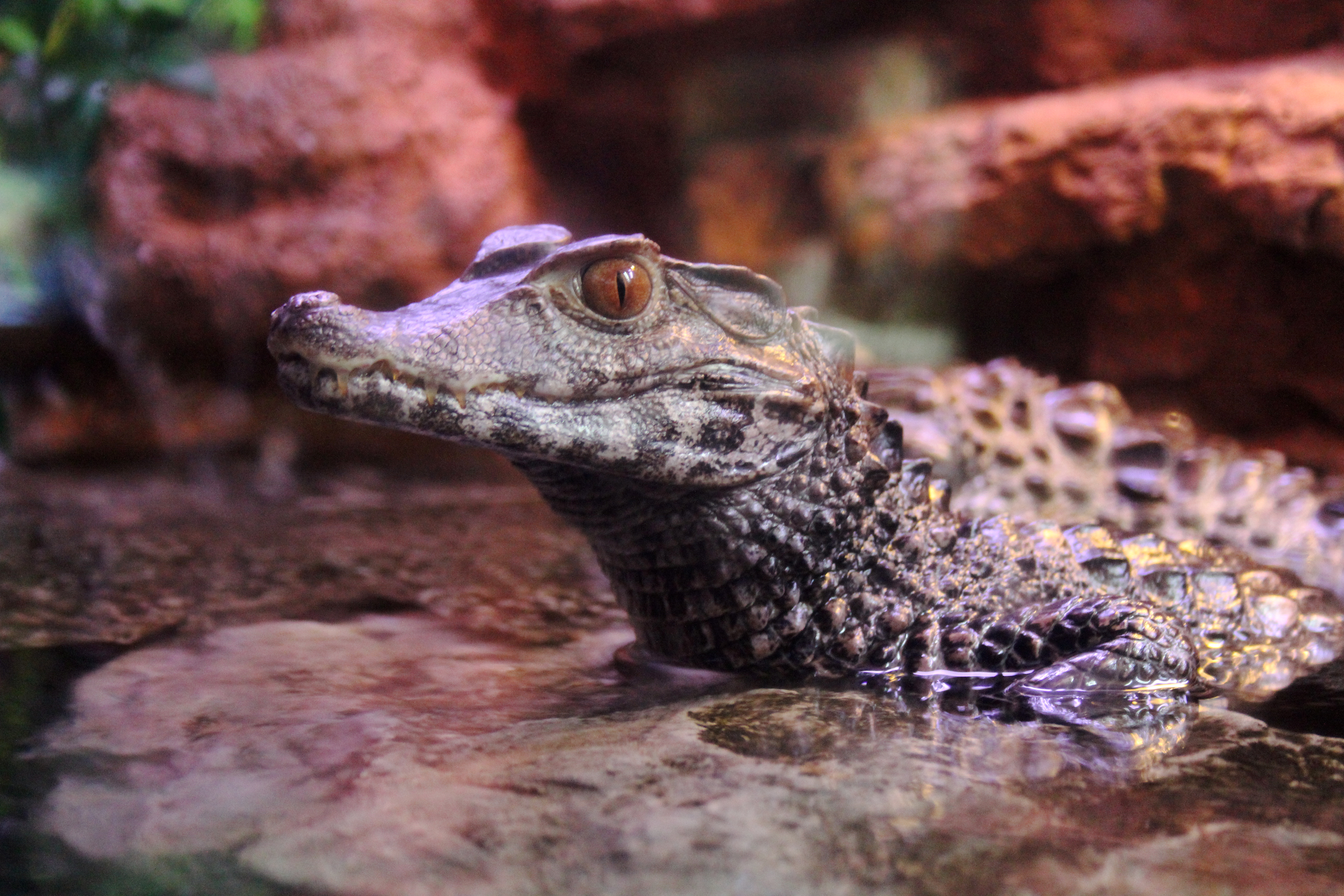 Cuvier's dwarf caiman, (Paleosuchus palpebrosus) in Prague sea aquarium “Sea world”, Czech Republic